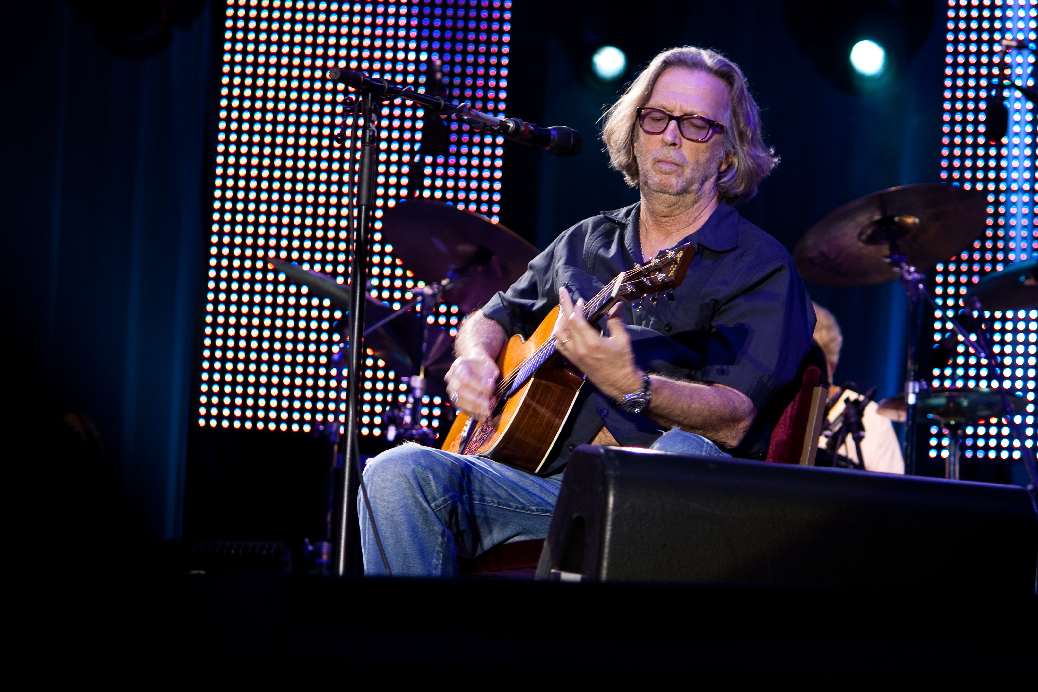 Living legend Eric Clapton in concert with Steve Winwood at Königsplatz, München in Germany